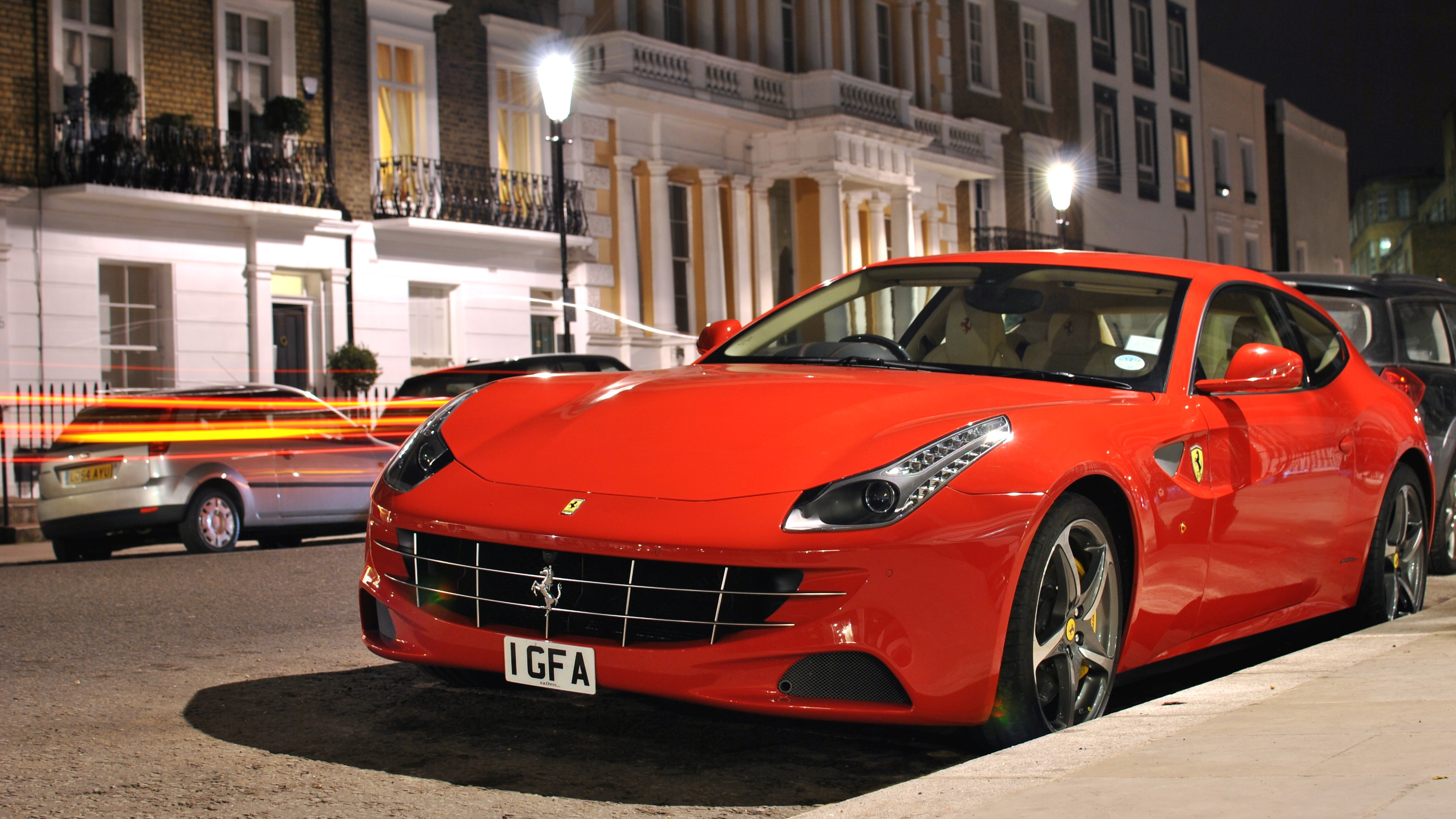 Ferrari FF pictured in London